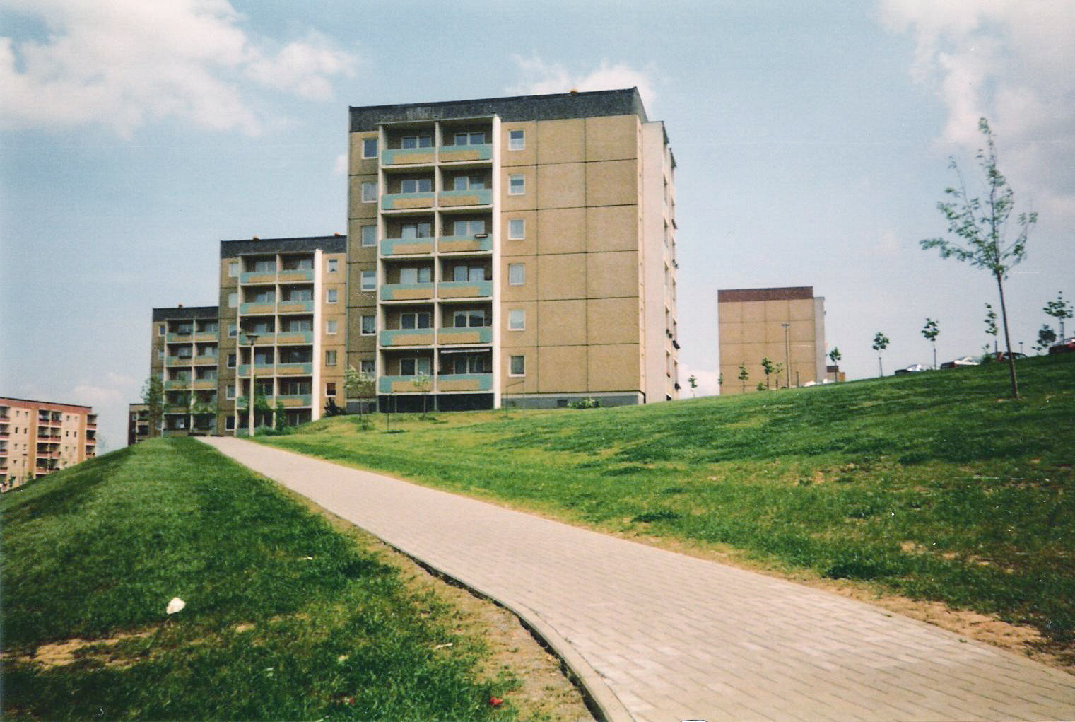 Slab buildings (Plattenbauten) at Gera-Bieblach-Ost.